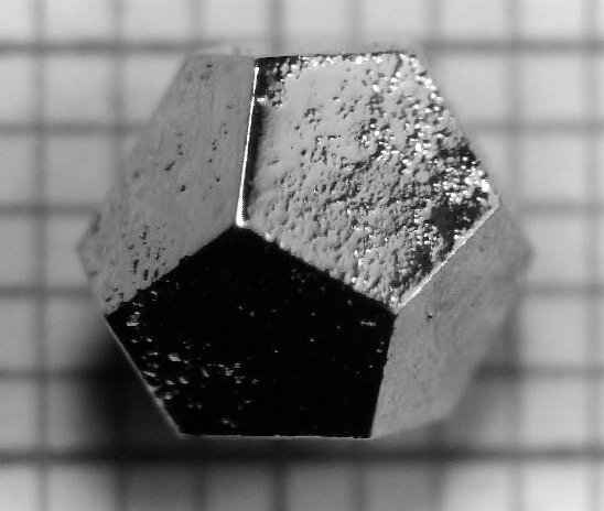 Ho-Mg-Zn dodecahedral quasicrystal, grown by using the self-flux method (excess Mg), and slowly cooling from 700 C to 480 C. The R-Mg-Zn family is the first rare-earth containing quasicrystal structure, which allows the study of localized magnetic moments in a quasiperiodic environment. Or: Photograph of a single-grain icosahedral Ho-Mg-Zn quasicrystal grown from the ternary melt. Shown over a mm scale, the edges are 2.2 mm long. Note the clearly deﬁned pentagonal facets, and the dodecahedral morphology. [in: Phys. Rev. B 59, 308–321 (1999)]